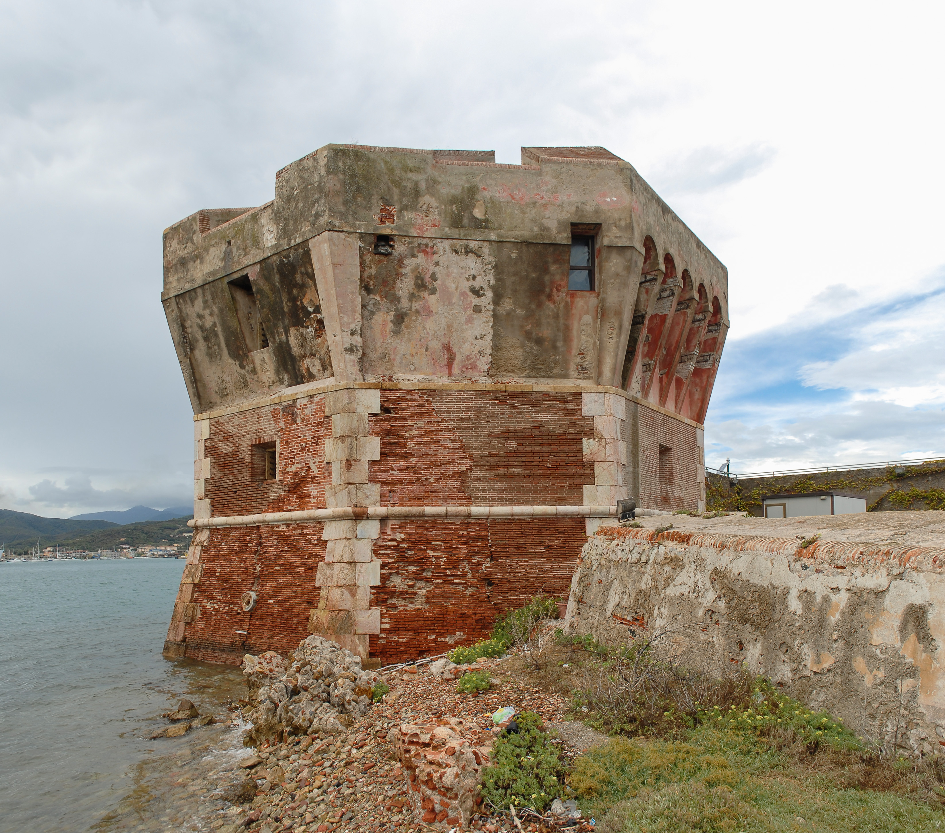 Linguella Tower or Martello Tower in Portoferraio, Isola d'Elba